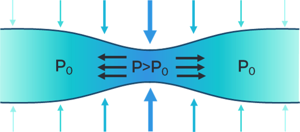 Capillary instabiltiy create extensional flow within necked filament